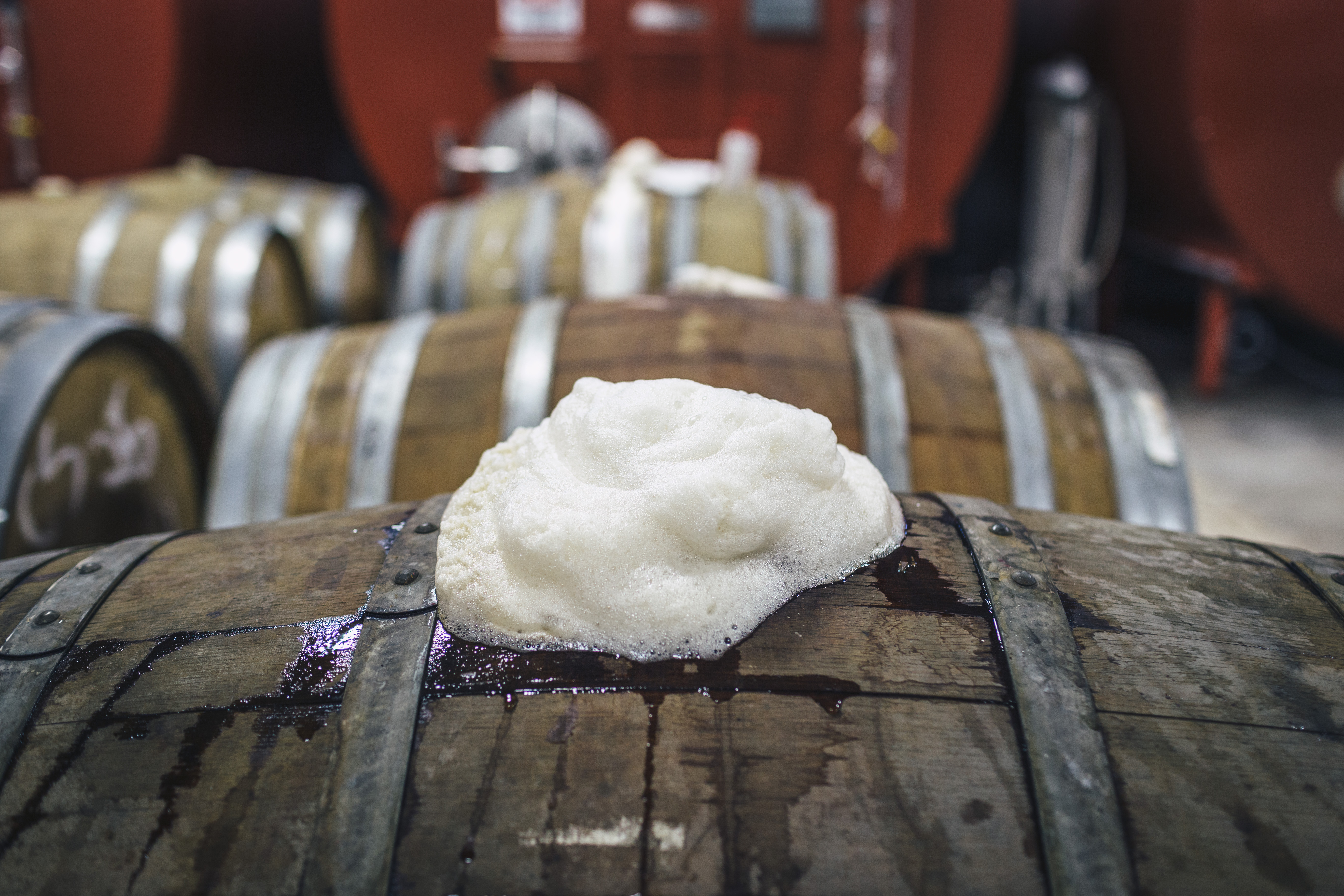 Coolship Barrels Fermenting